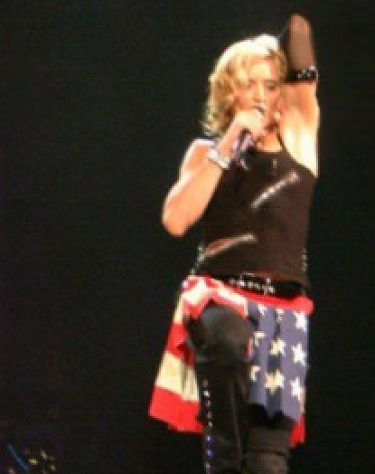 Madonna - Sept 2001 - Los Angeles